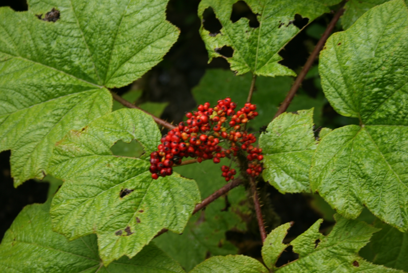 Oplopanax horridus: Foliage and berries.